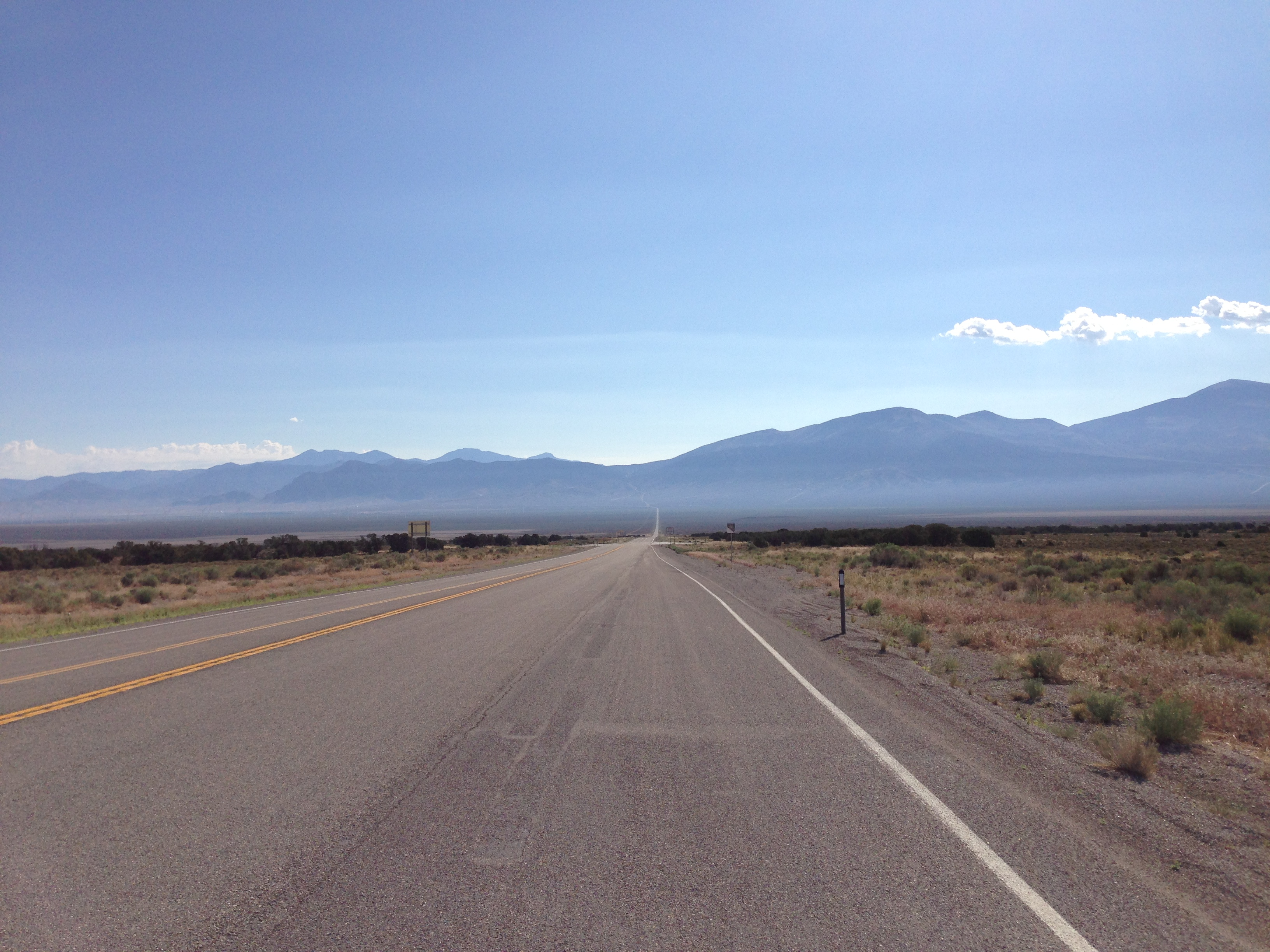 View east along U.S. Highway 6 and U.S. Highway 50 at the junction with U.S. Highway 93 in Majors Place, Nevada on July 14th 2013